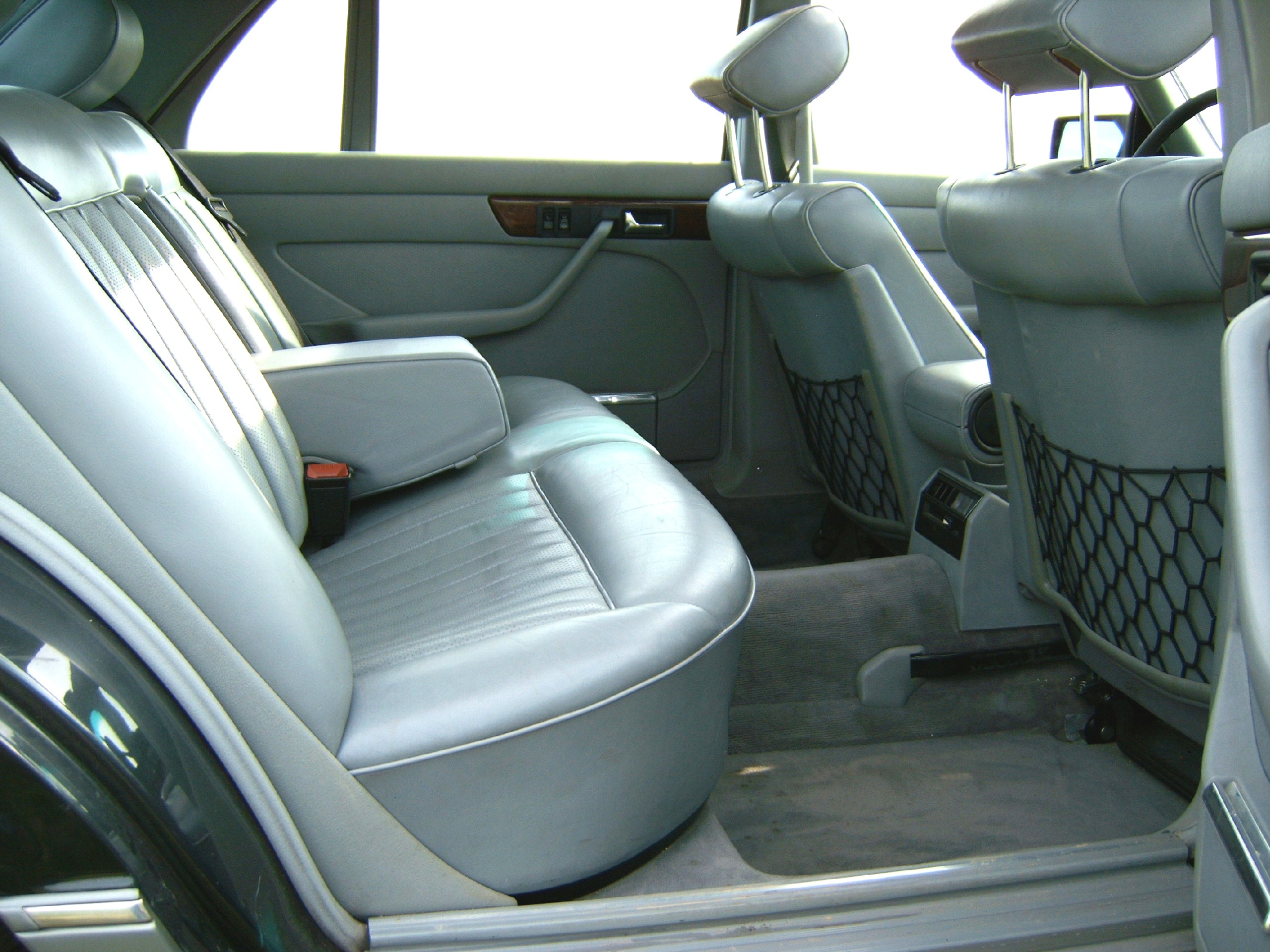 The interior of a Mercedes-Benz W126 500SEL photographed in Germany.